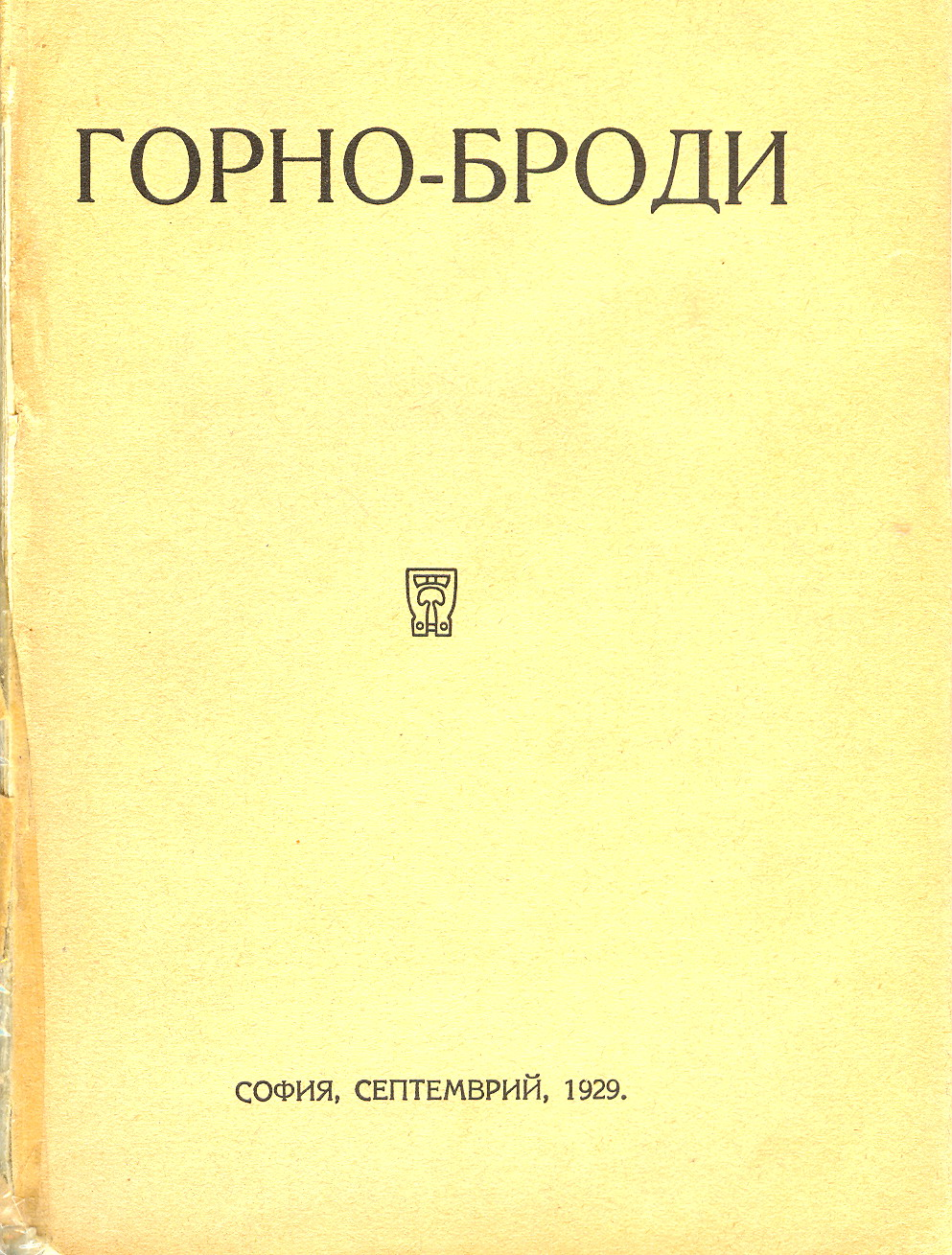 First page of Georgi Bajdarov`s book "Gorno Brodi"